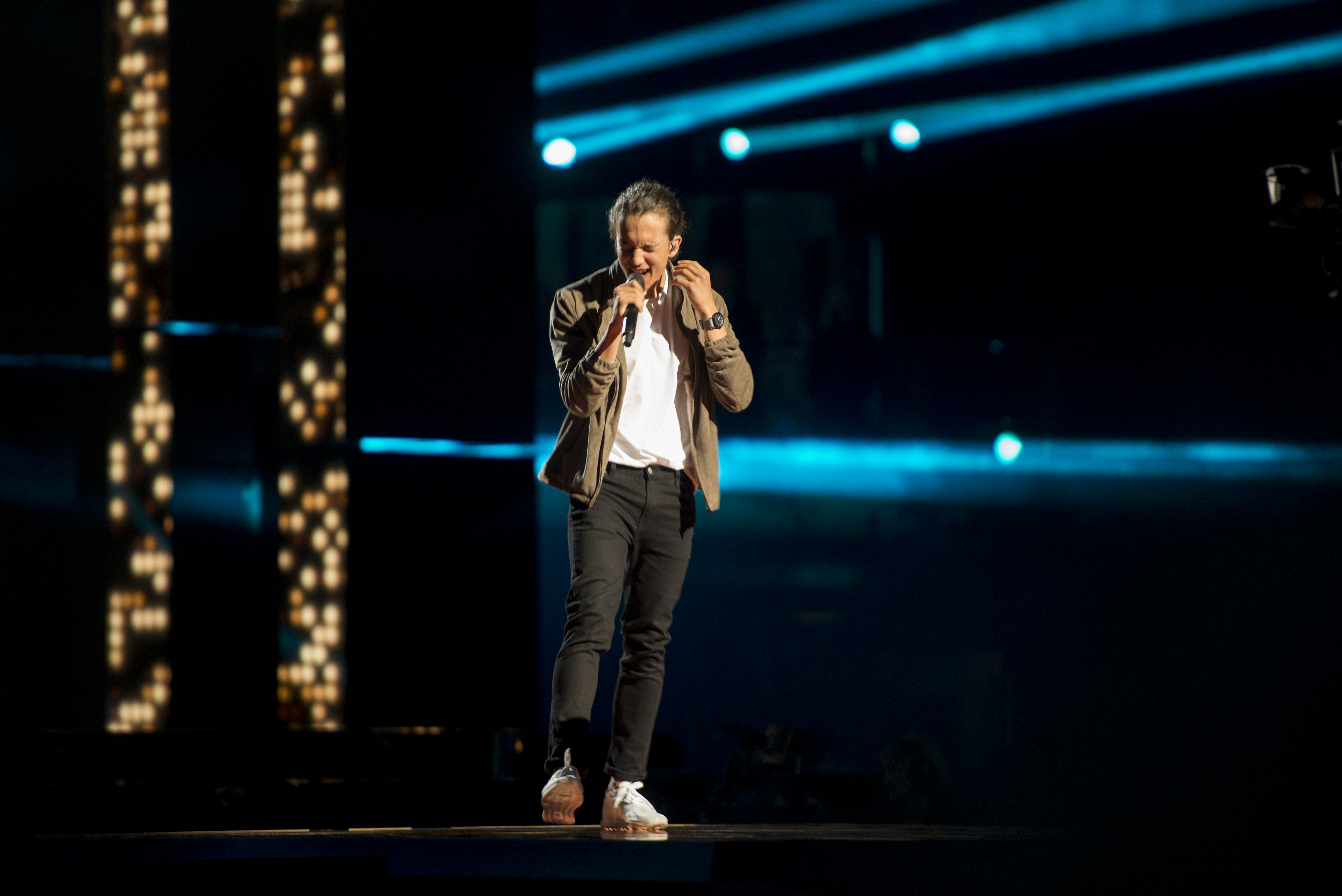 Frans representing Sweden with the song "If I Were Sorry" during the first dress rehearsal of the final of the Eurovision Song Contest 2016 in Stockholm. (Help translate this text)